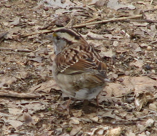 White Throated Sparrow